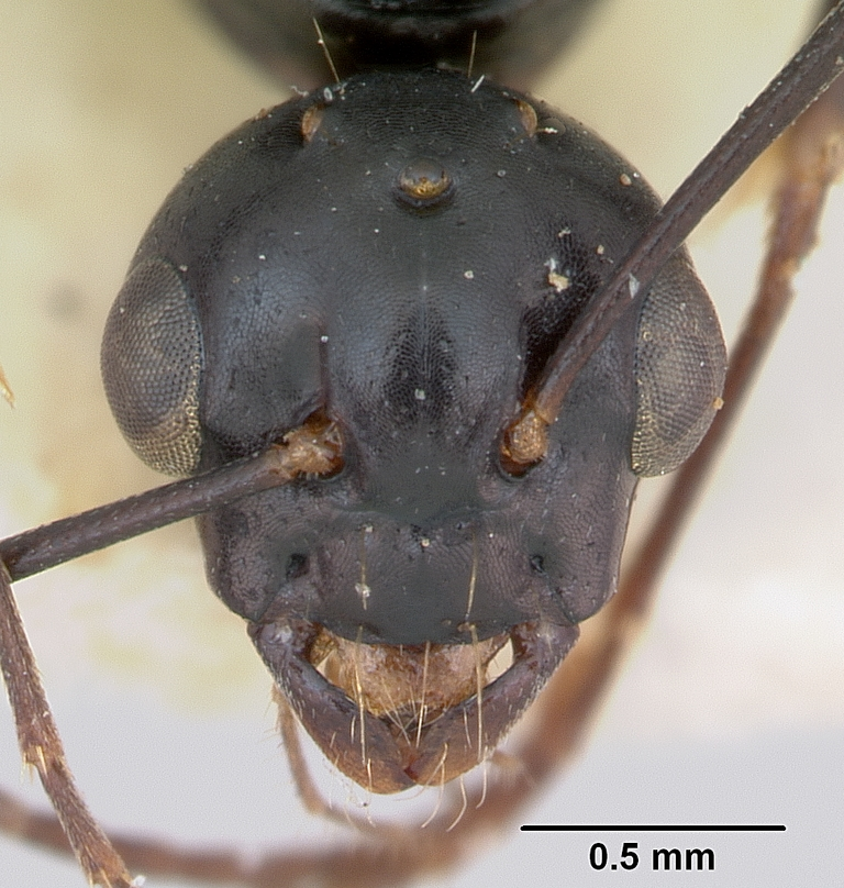 Head view of ant Camponotus fallax specimen casent0103341.